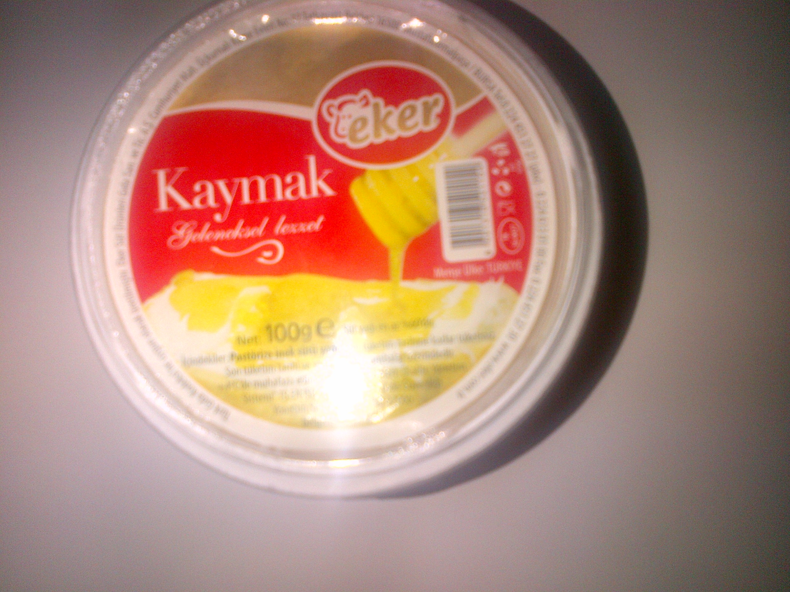 Kaymak from Turkey